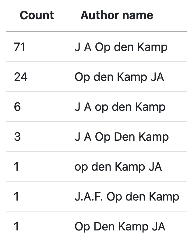 Scholia page for missing information related to an author profile as of 2019-12-02 at 20.47.22.